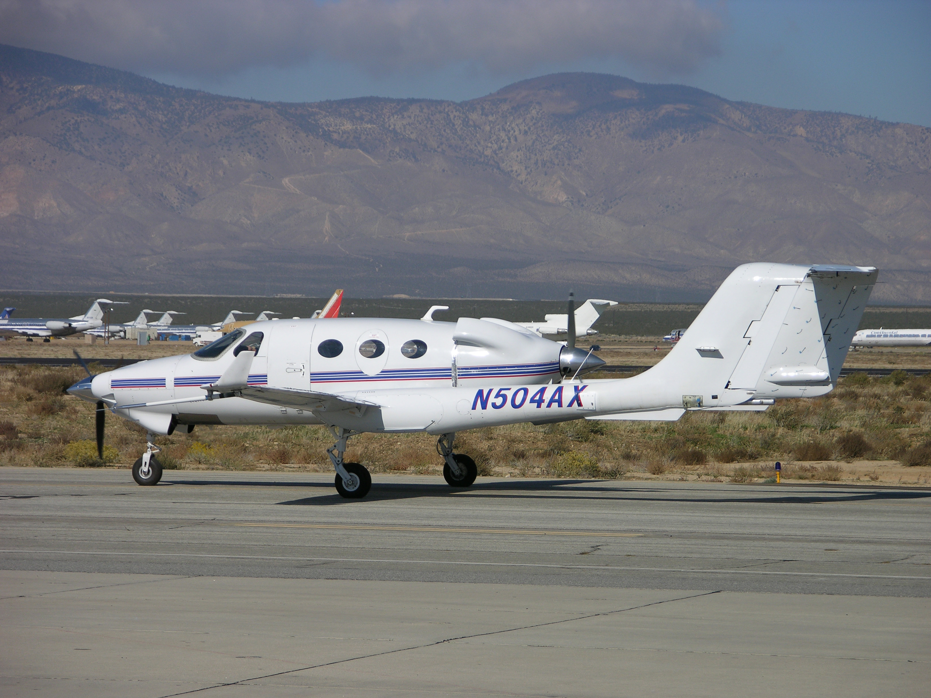 Adam Aircraft A500 during flight test program at the Mojave Spaceport